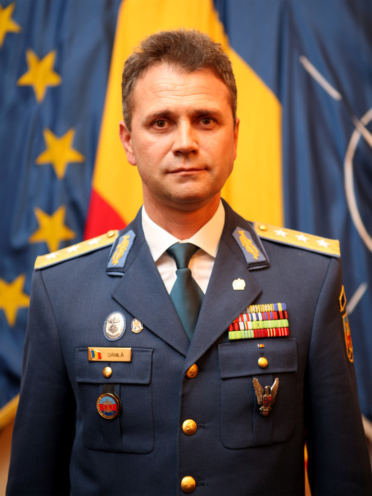 Ștefan Dănilă, Romanian Chief of General Staff.